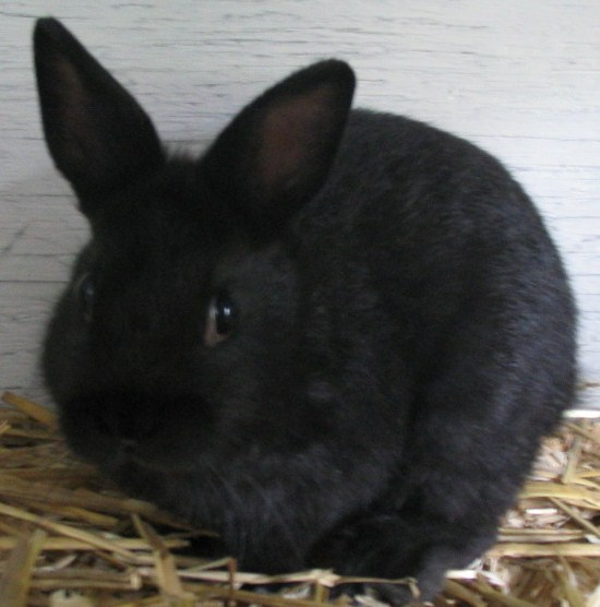 Strider-Netherland Dwarf Rabbit